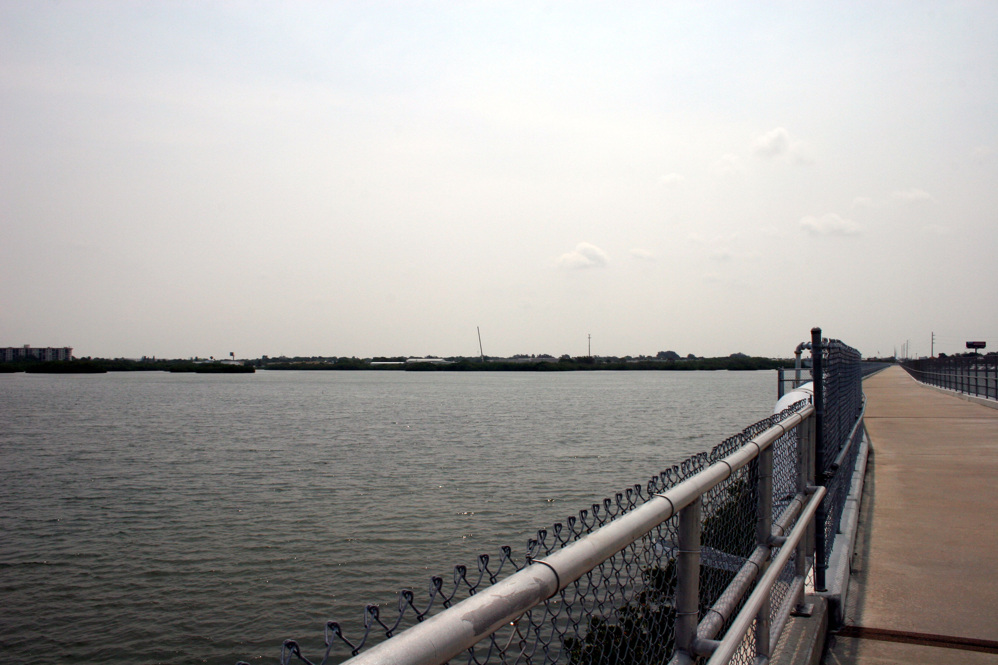 View across Boca Ciega Bay from the Pinellas Trail.